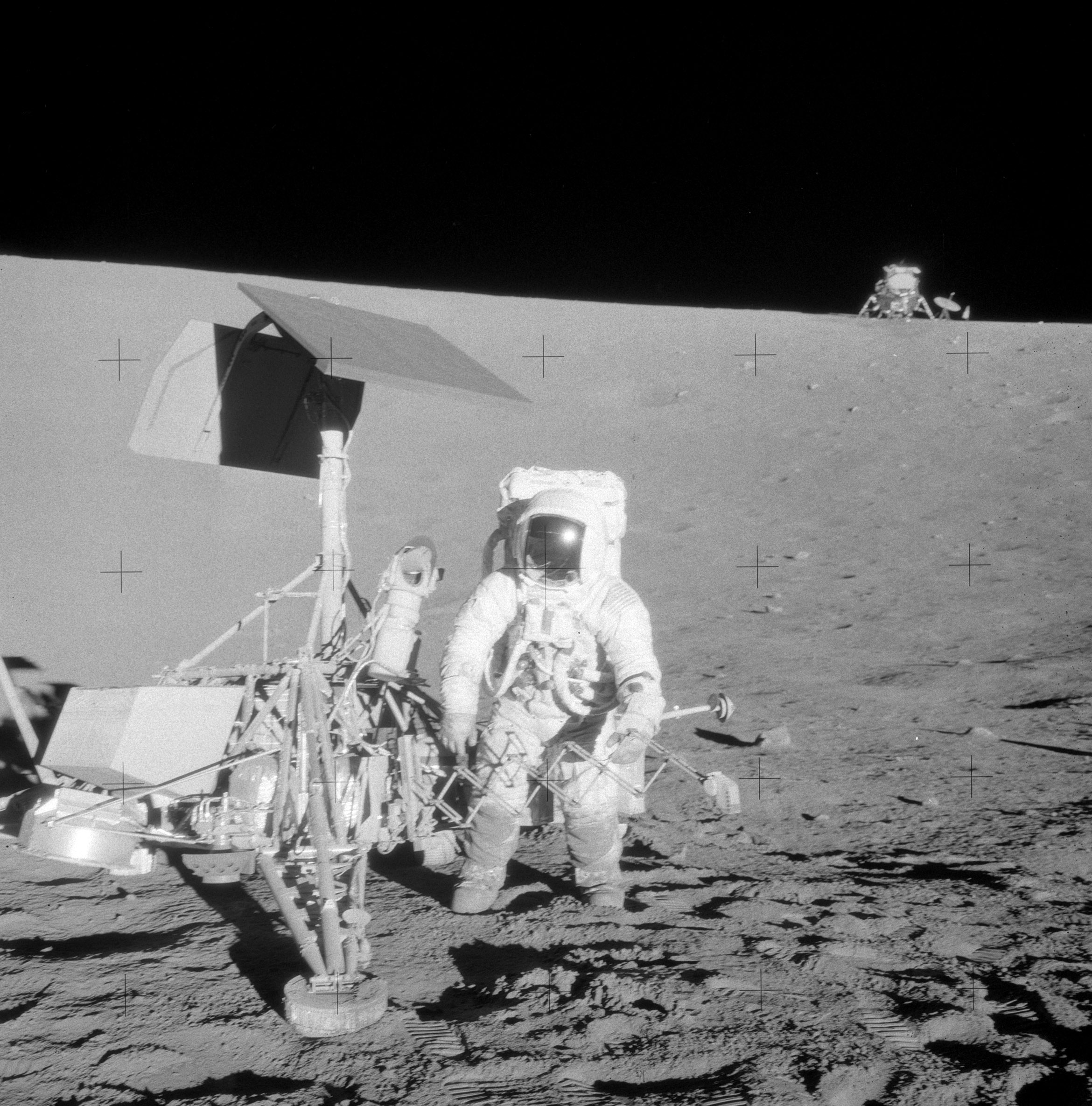 Apollo 12 astronaut Alan Bean and Surveyor 3